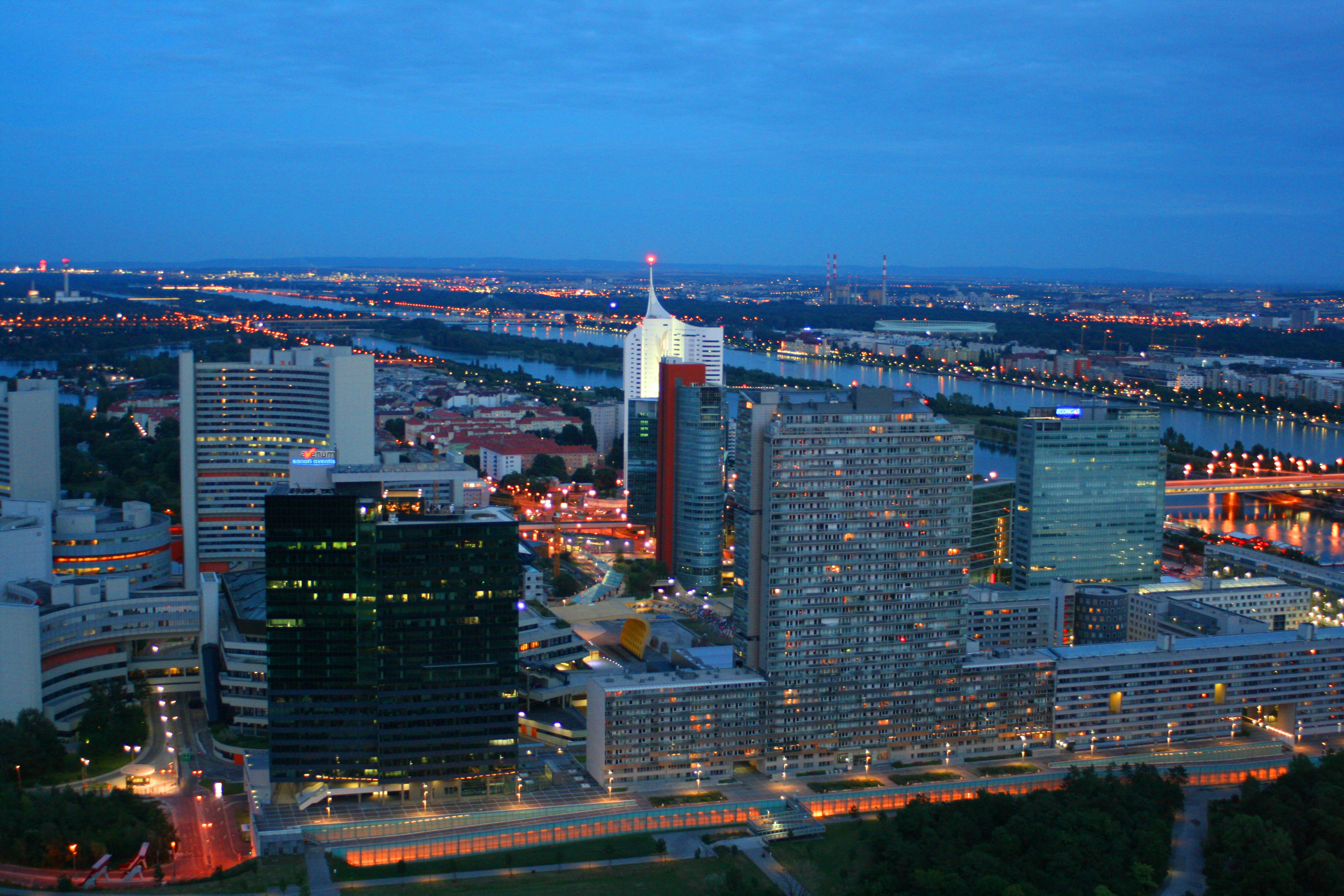 View from the Donau tower, Vienna Saturation pumped up a bit :-)